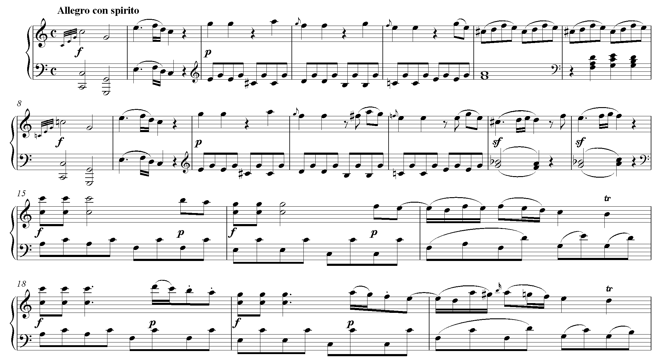 First theme of Mozart's Sonata in C Major, K. 309, measures 1-20.